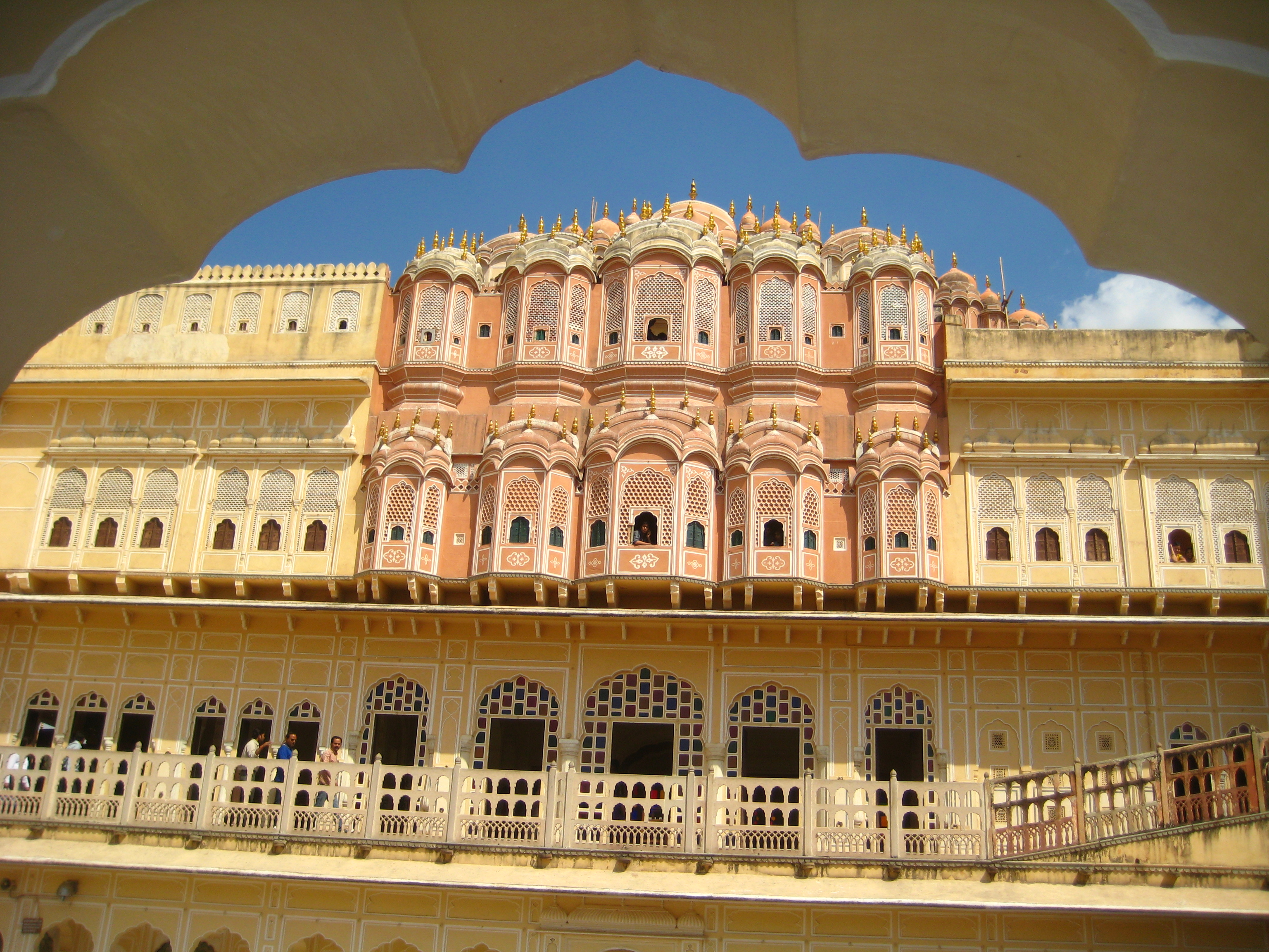 Hawa Mahal is an icon of Jaipur. It is one of the most visited places in Jaipur. In this photo, you are watching top 2 stories of Hawa Mahal through a Jharokha.